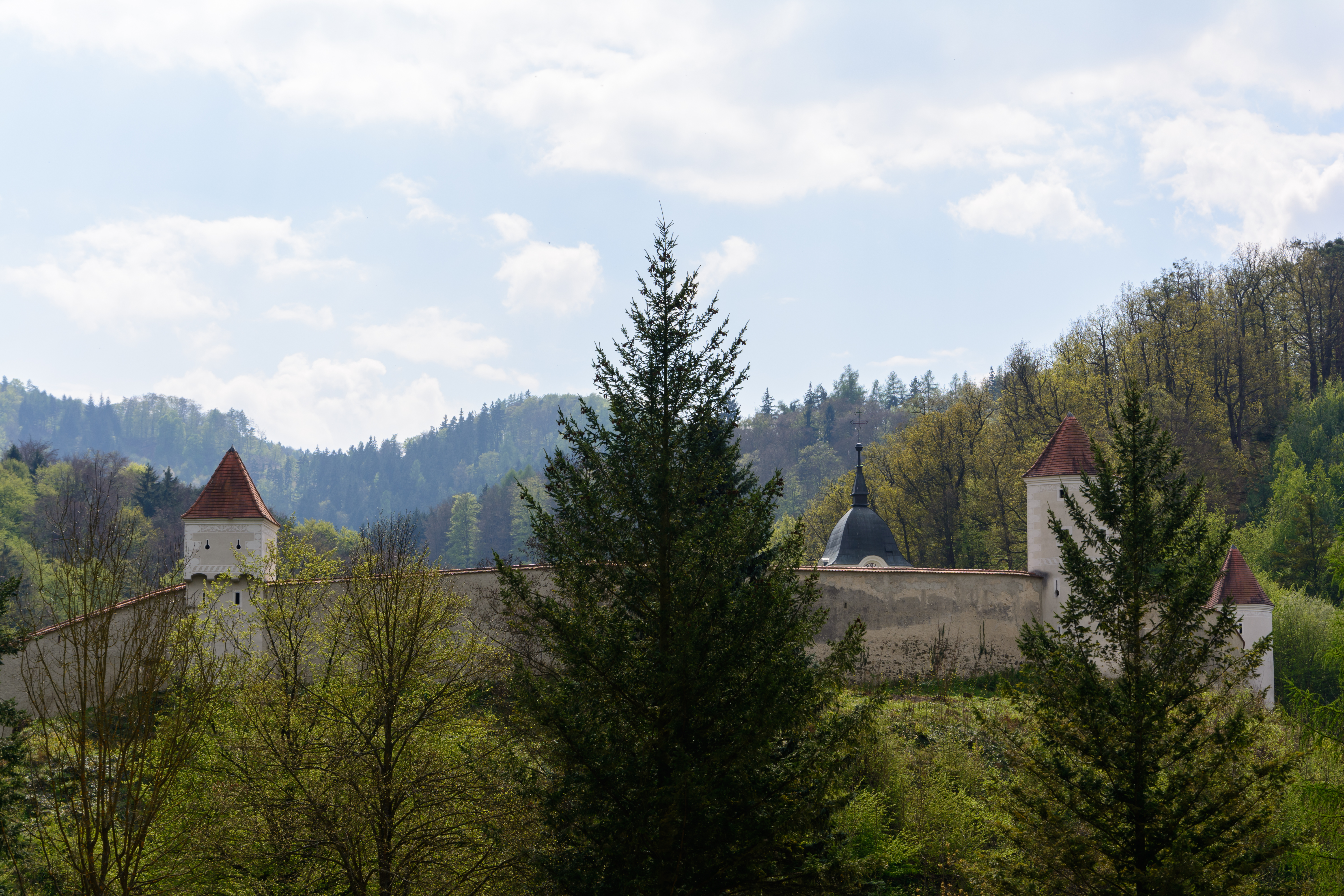 East view of former Aggsbach Charterhouse, Lower Austria